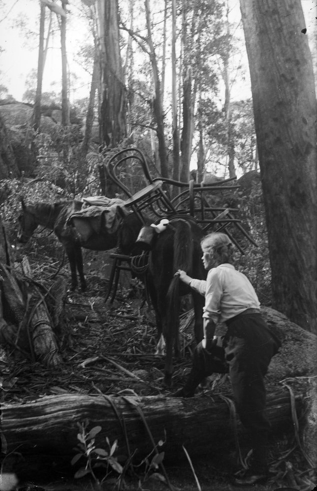 Alice Manfield (Guide Alice) (1878-1960) stepping over a large log in mountainous bushland. She is holding the tail of a horse loaded with wooden chairs, and may be using the horse to help her up the track. A second pack horse stands nearby. Mt Buffalo, Victoria, Australia. Converted to digital from negative: glass, 14 cm x 9 cm.